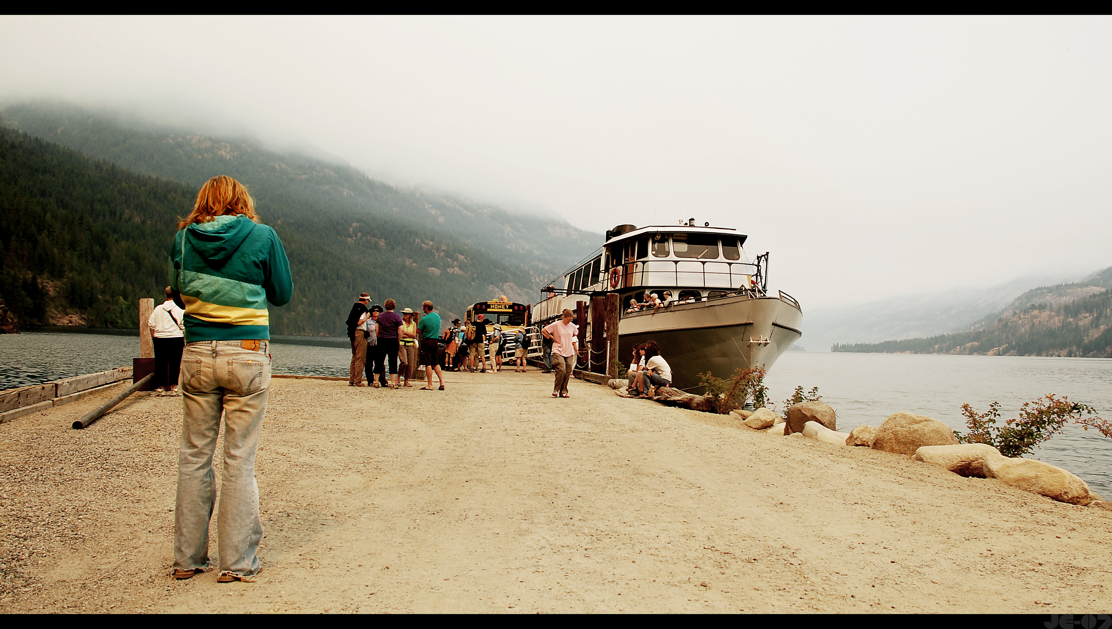 Picture from the holden village evacuation of 2007